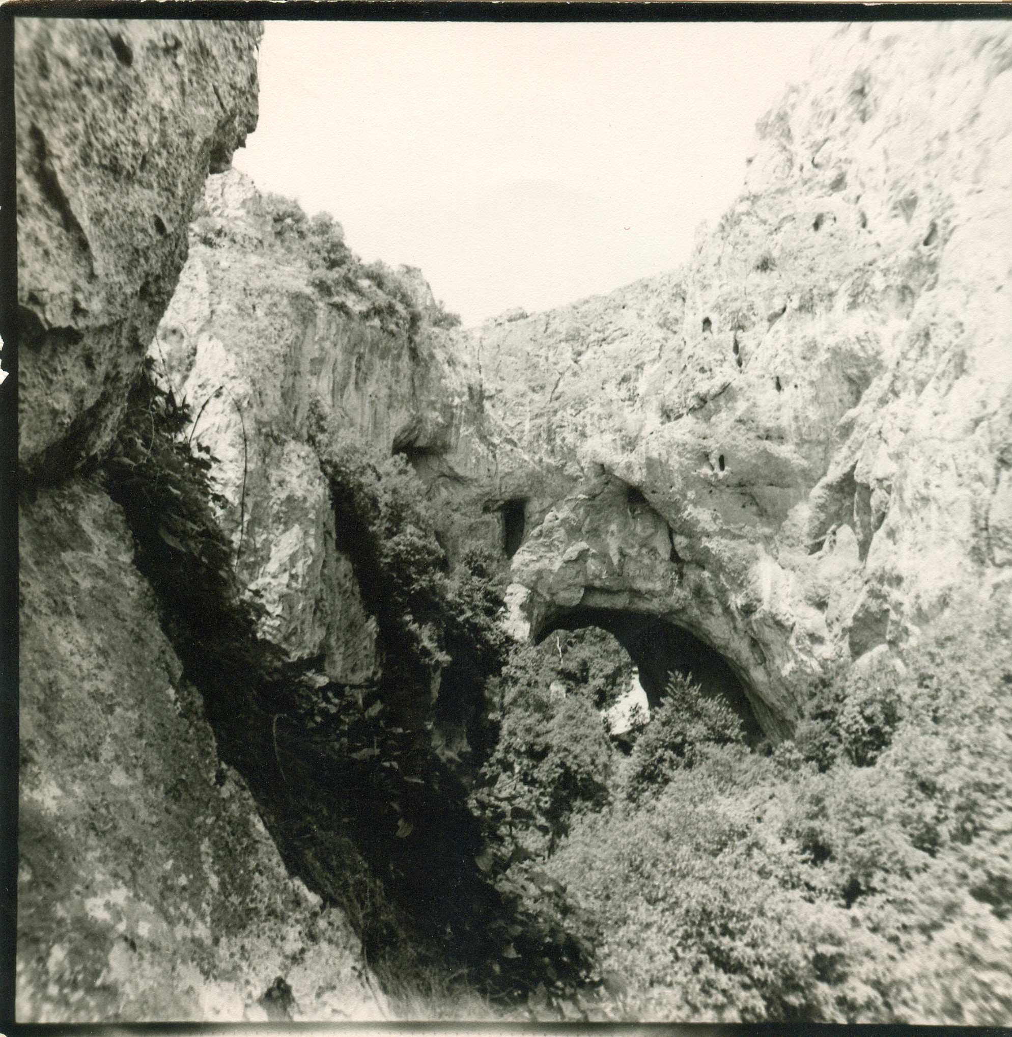 Vratna River Canyon near Negotin in East Serbia Srpski (latinica): Vratnjanske kapije osamdesetih godina XX veka